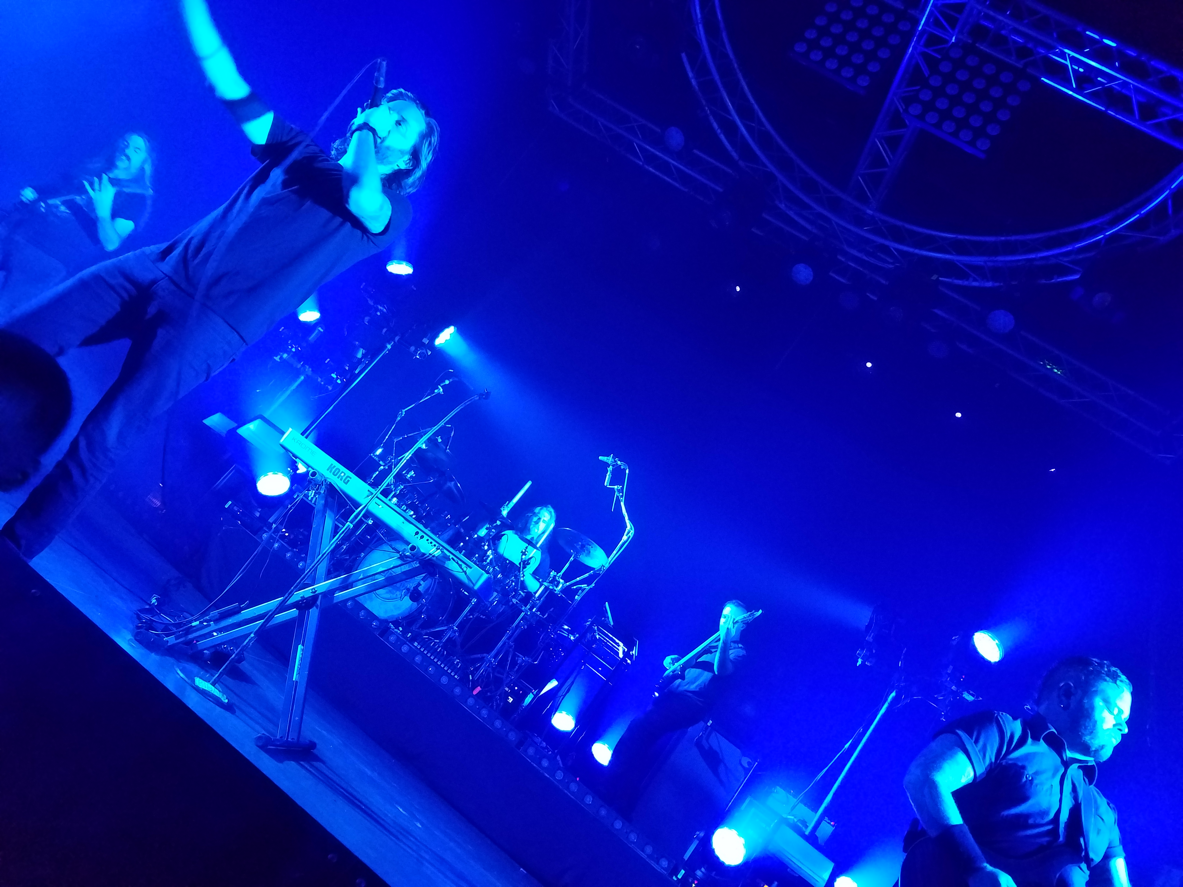 Between the Buried and Me 2018